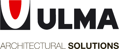 ULMA Architectural Solutions logo